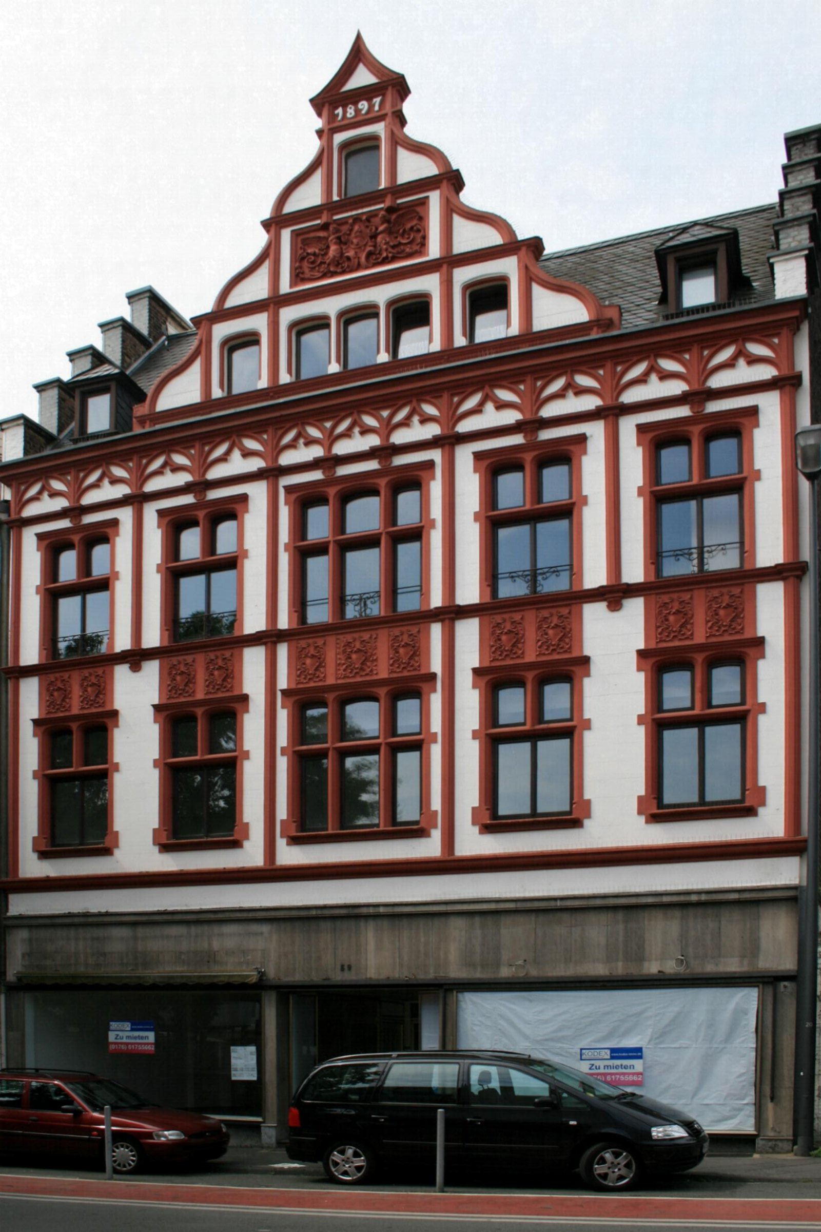 Cultural heritage monument No. F 018 in Mönchengladbach